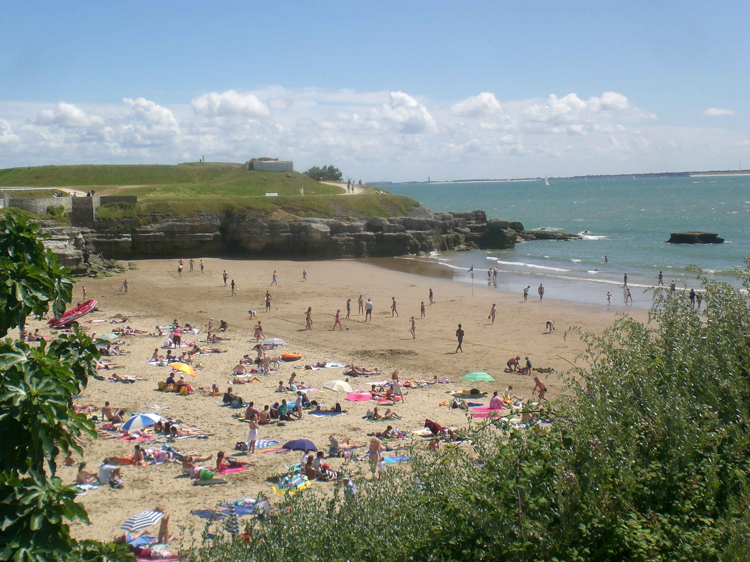 The beach of Chay at Royan during a summer day